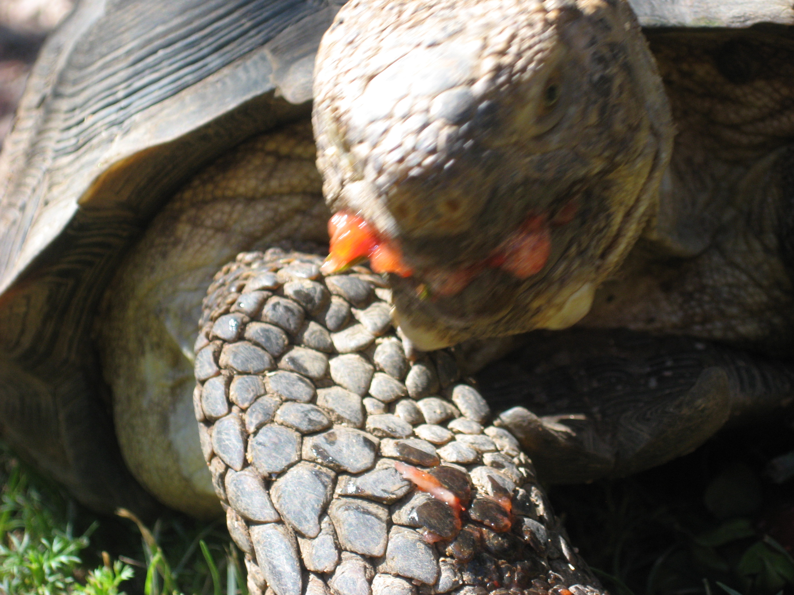 Male Sonoran Desert Tortoise with visible chin glands and strawberry in mouth.